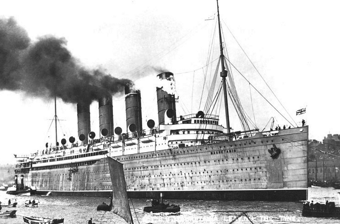 RMS Mauretania on the River Tyne in 1907